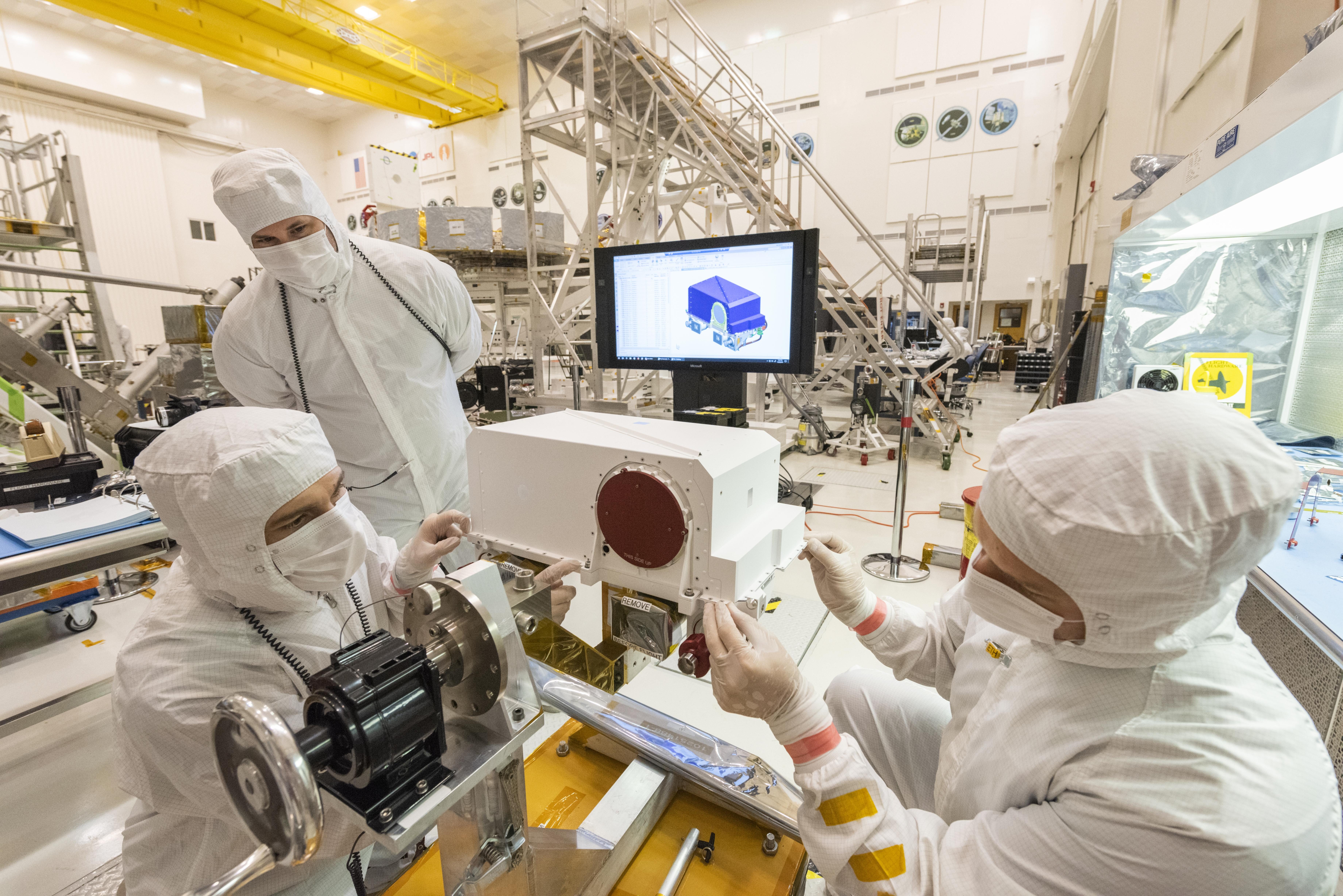 PIA23266: NASA's Mars 2020 Gets HD Eyes In this picture — taken on May 23, 2019, in the Spacecraft Assembly Facility's High Bay 1 clean room at the Jet Propulsion Laboratory in Pasadena, California — engineers re-install the cover to the remote sensing mast (RSM) head after integration of two Mastcam-Z high-definition cameras that will go on the Mars 2020 rover. JPL is building and will manage operations of the Mars 2020 rover for the NASA Science Mission Directorate at the agency's headquarters in Washington. For more information about the mission, go to